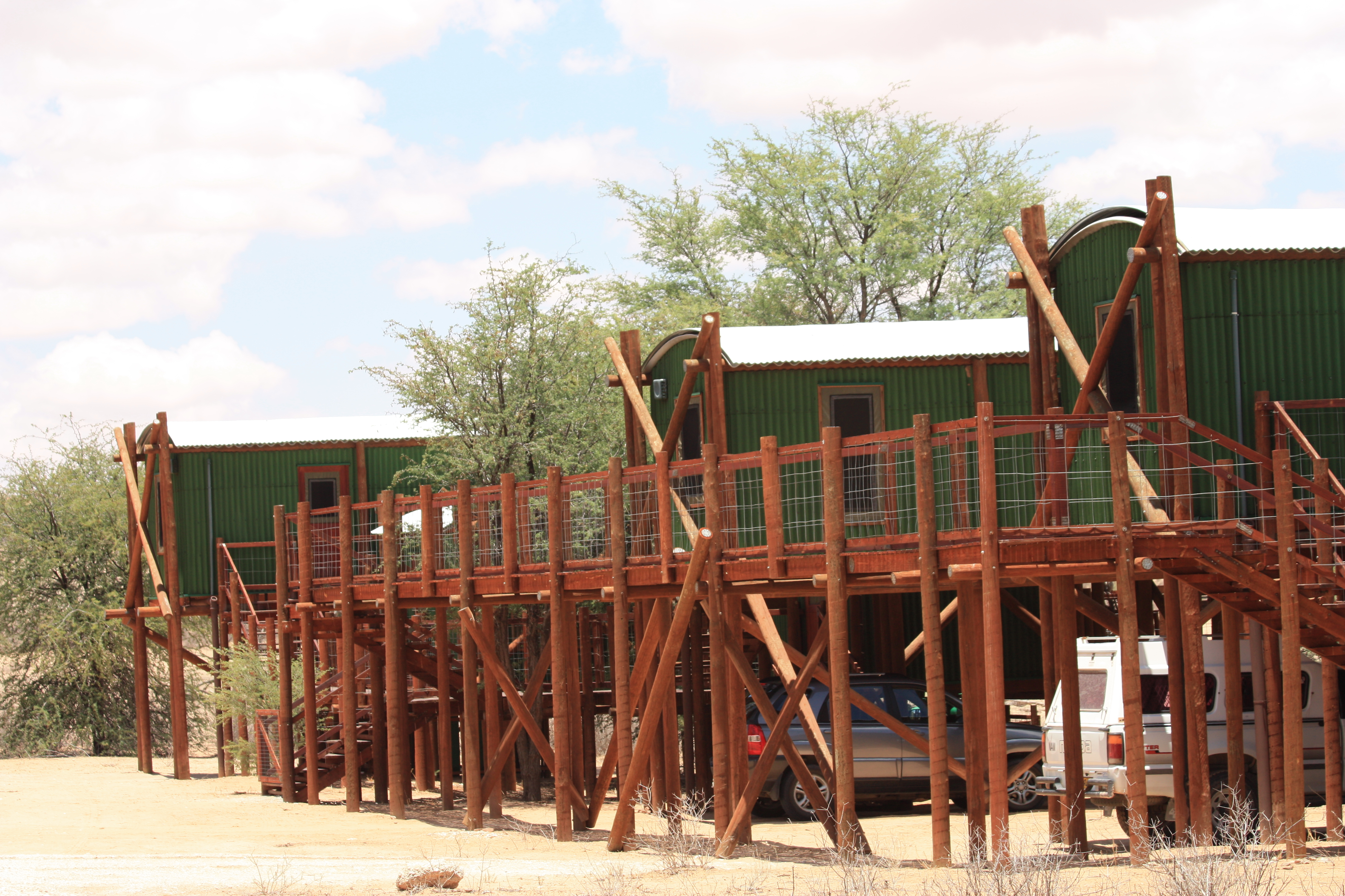 Urikaruus Camp in the Kgalagadi Transfrontier Park, Northern Cape, South Africa.